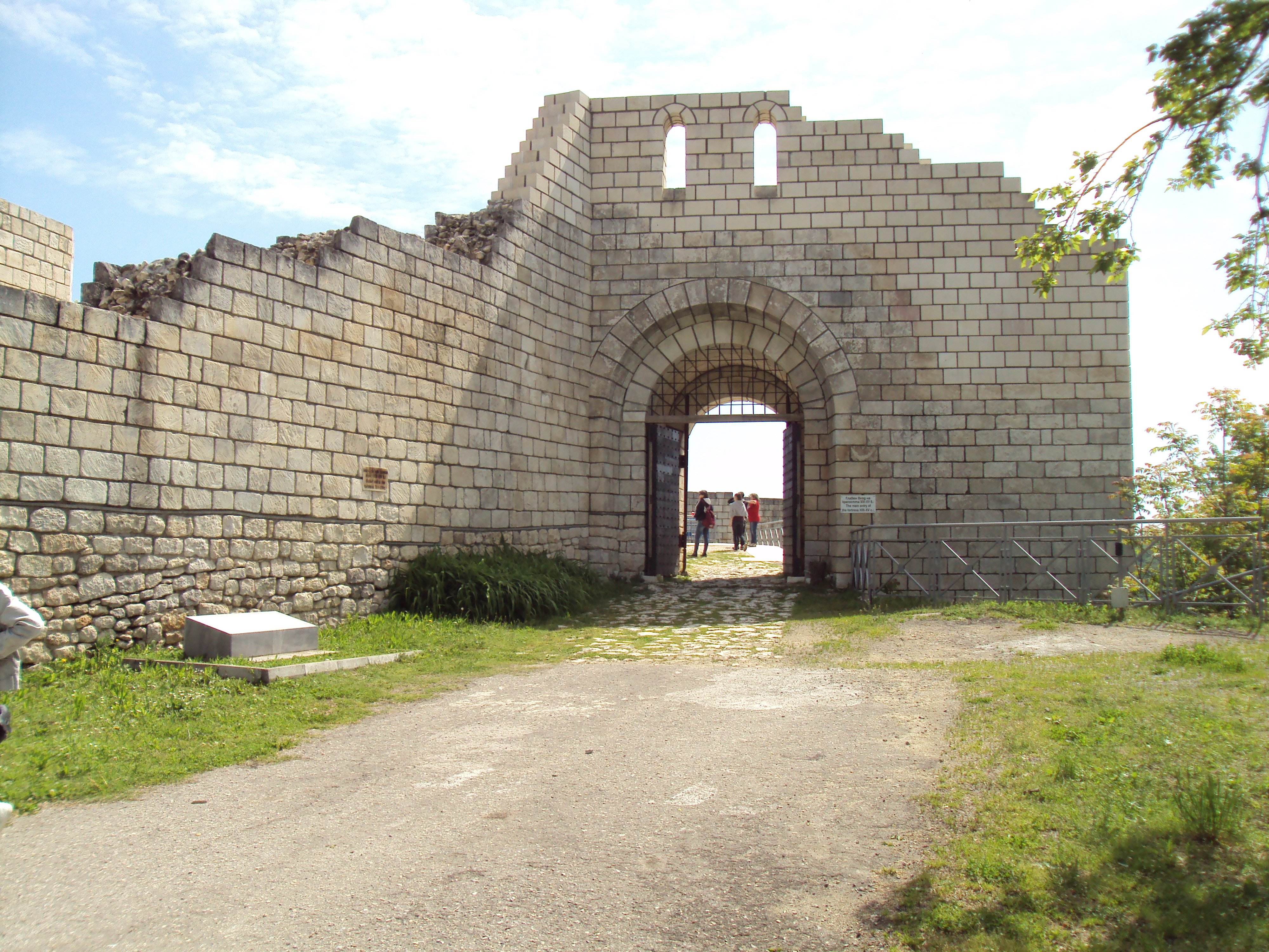 Shumen Fortress